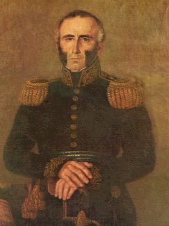 Oil canvas "Juan Antonio Lavalleja" made by Jean Philippe Goulu (1786-1853).